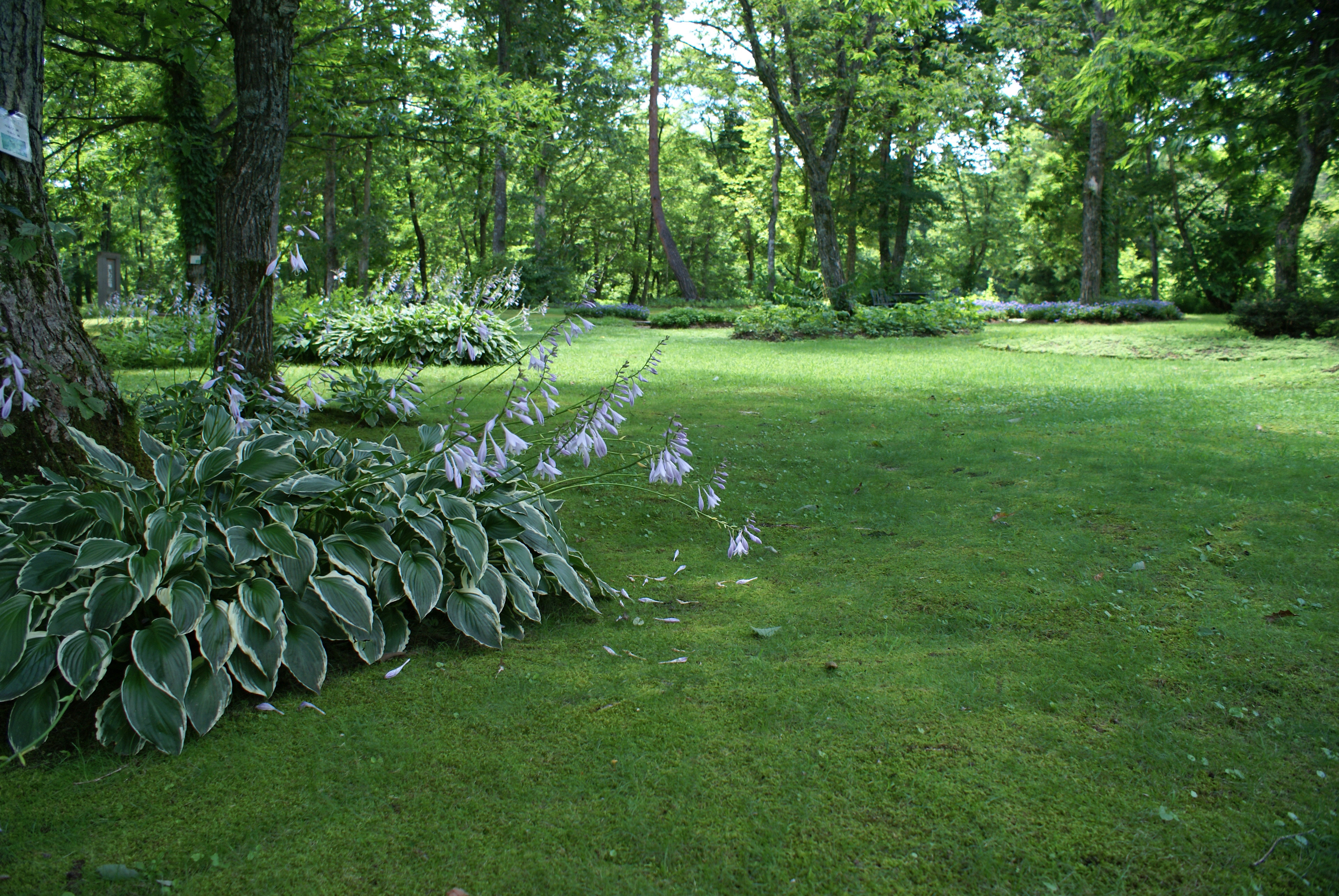 Tajima Plateau Botanical Gardens (Torokawadaira) in Kami, Hyogo prefecture, Japan